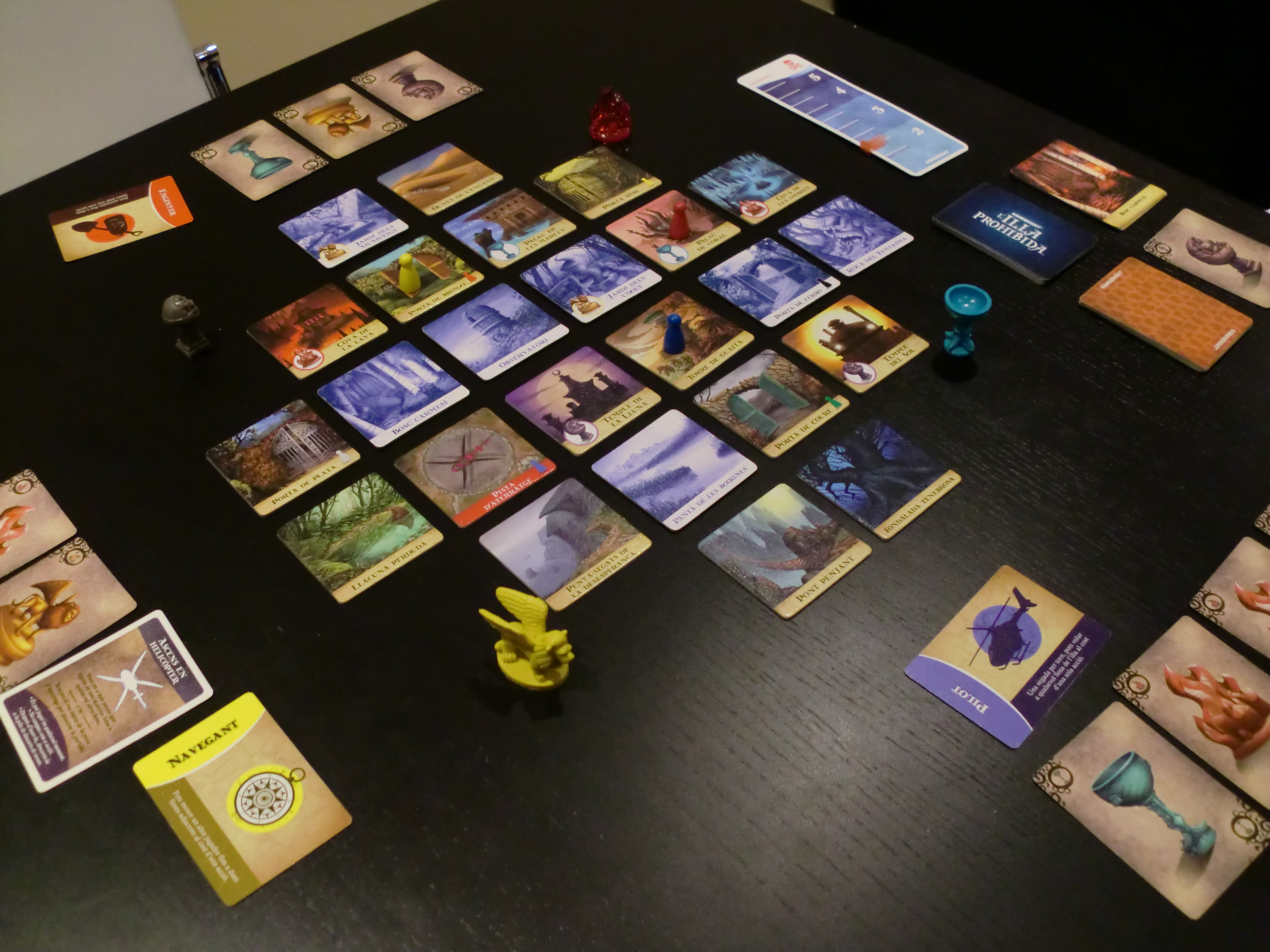 forbidden island boardgame